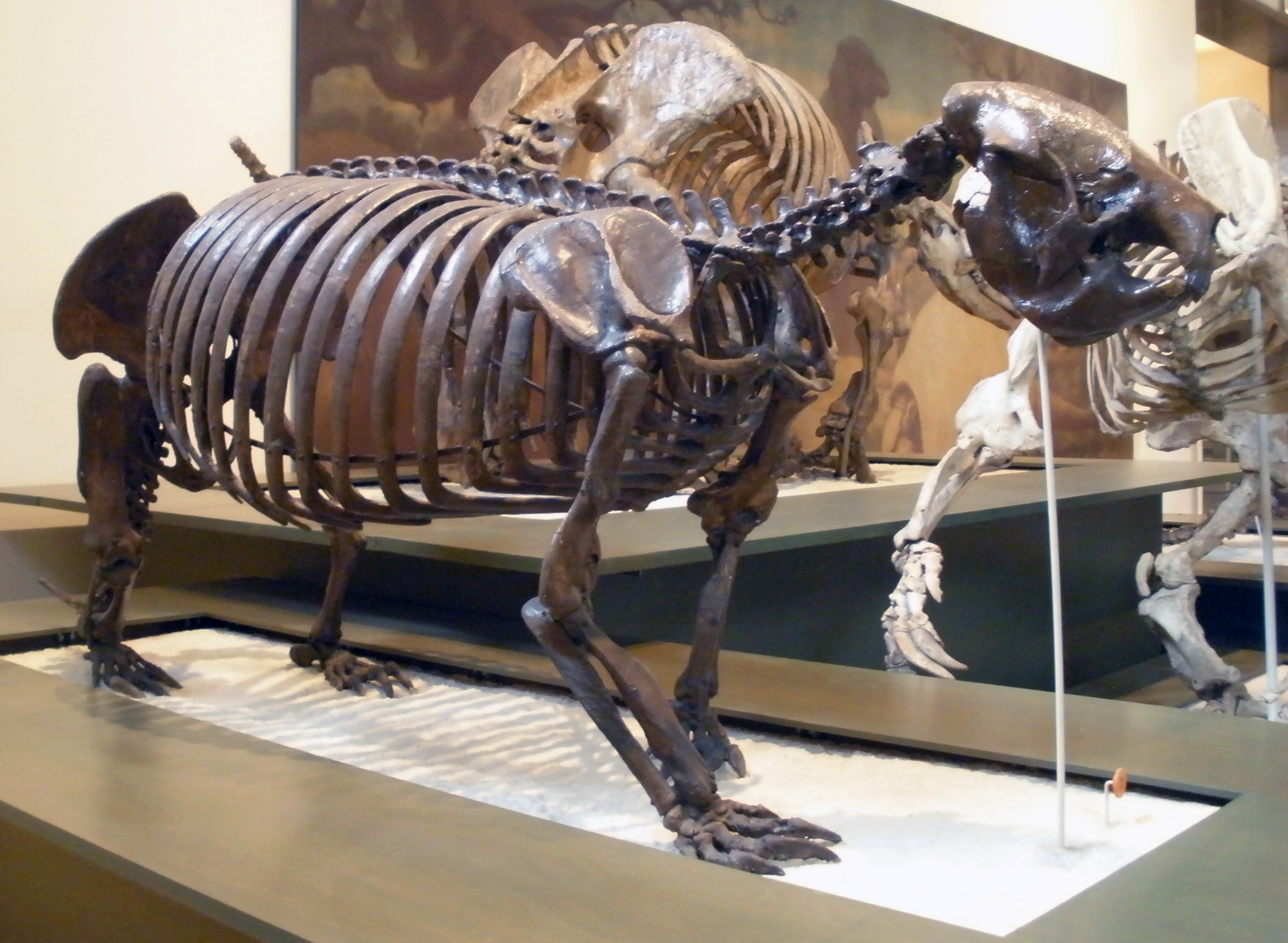 Vertebrae of Megalocnus rodens, a fossil sloth